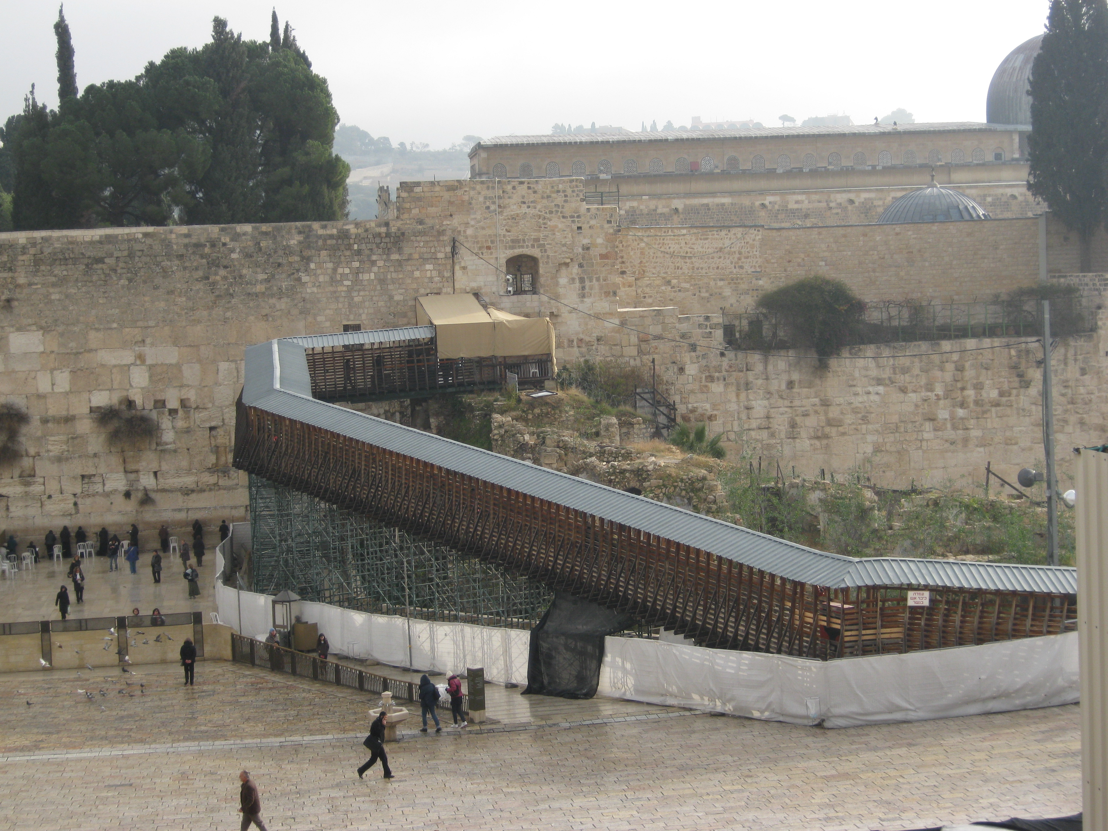 Mughrabi-Bridge